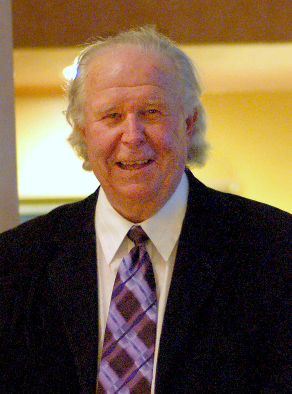 Ned Beatty is one of the stars of Sweet Land. He had just finished signing the 'Riverview Theater's copy of the movie poster.